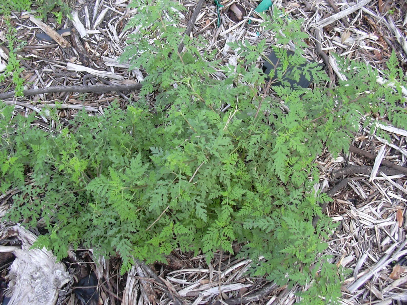 Ambrosia artemisiifolia (habit). Location: Florida, Long Key